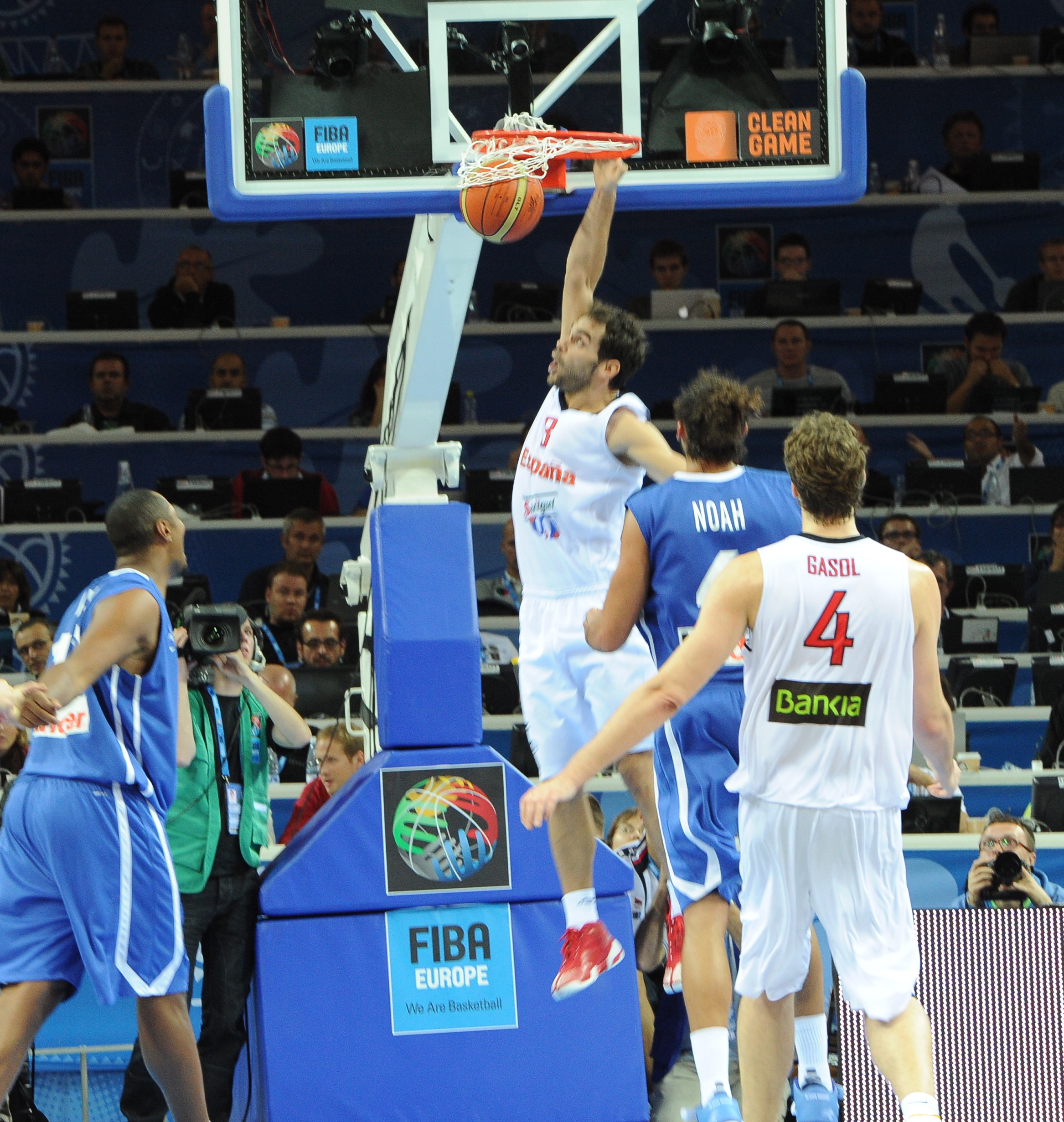 Jose Calderon dunking at EuroBasket 2011 final against France.